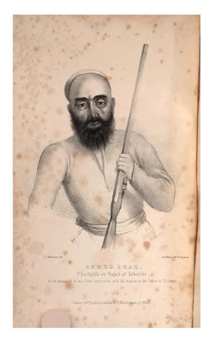 ahmed shah was the last maqpon emperor of skardu his kingdom was invaded by dogras in 1840